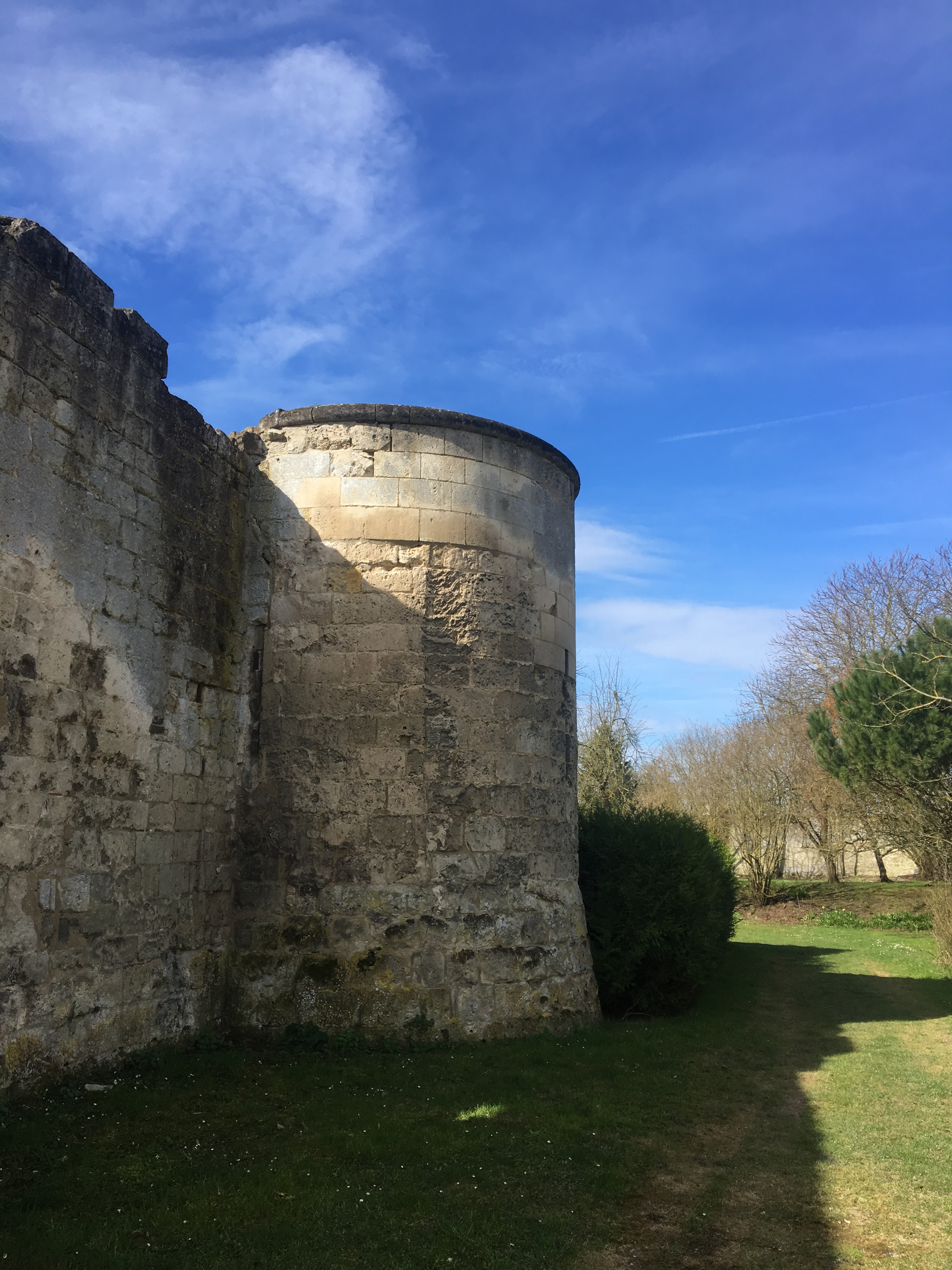 Ancienne Tour de l'abbaye de Saint-Médard de Soissons